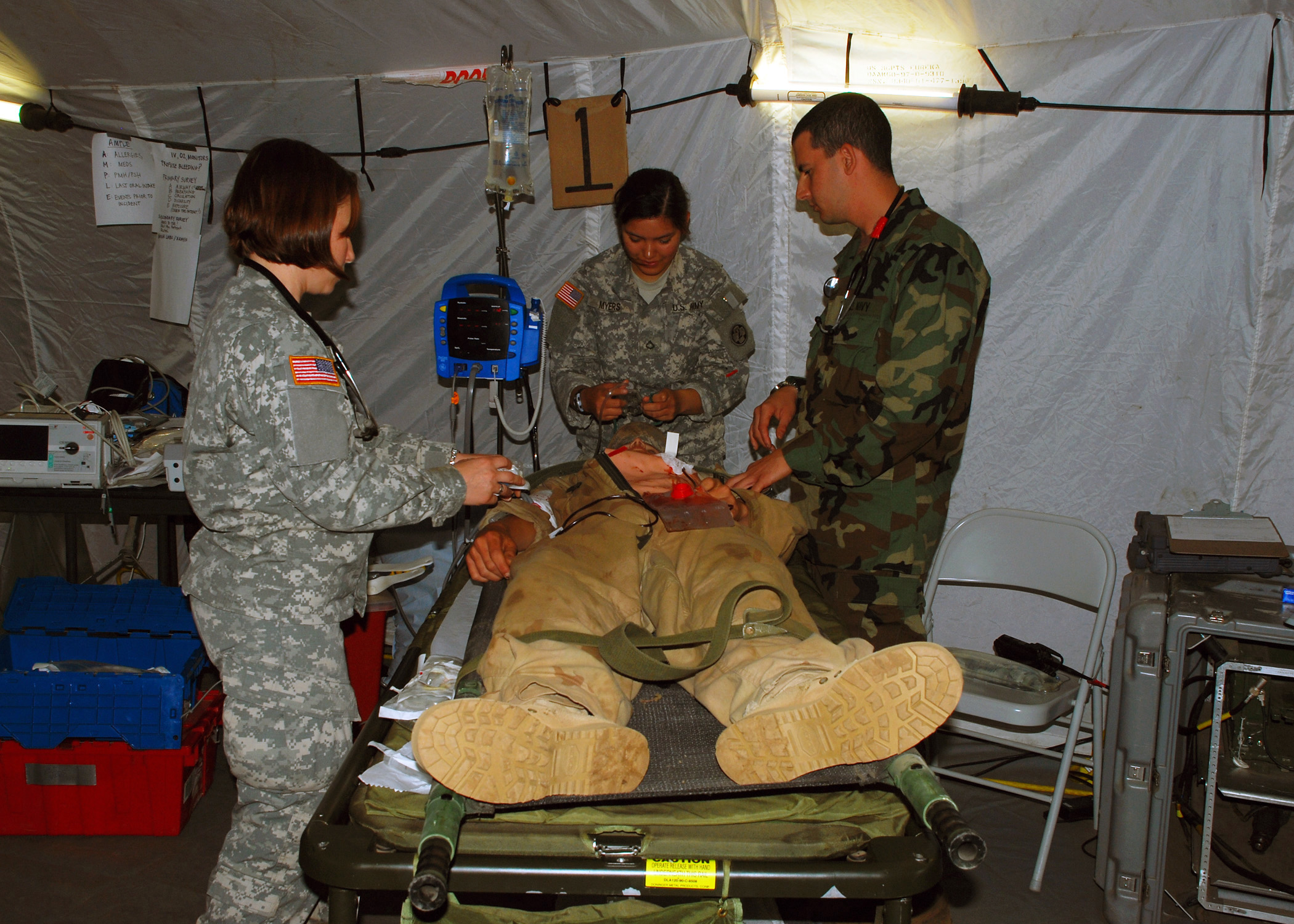 CAMP PENDLETON, Calif. (July 21, 2008) 2nd Lt. Abby Delong, left, and Private 1st Class Christina Meyers, center, both assigned to the 396th Combat Support Hospital, treat a simulated patient's injuries as Lt. Vince Peronti, right, assigned to the Expeditionary Health Services Pacific, observes the simulated patient's well being inside the Camp Peguero Battle Aide Station during a mass casualty drill. Joint Task Force (JTF) 8 engages Joint Logistics Over-The-Shore under a joint force commander as a means to load and unload ships without the benefit of deep draft-capable, fixed port facilities. (U.S. Navy photo by Mass Communication Specialist 3rd Class Brian Morales/Released)